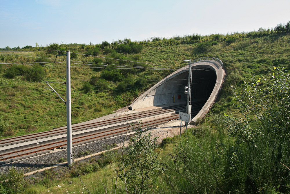 North entrance to the Aegidienberg Tunnel